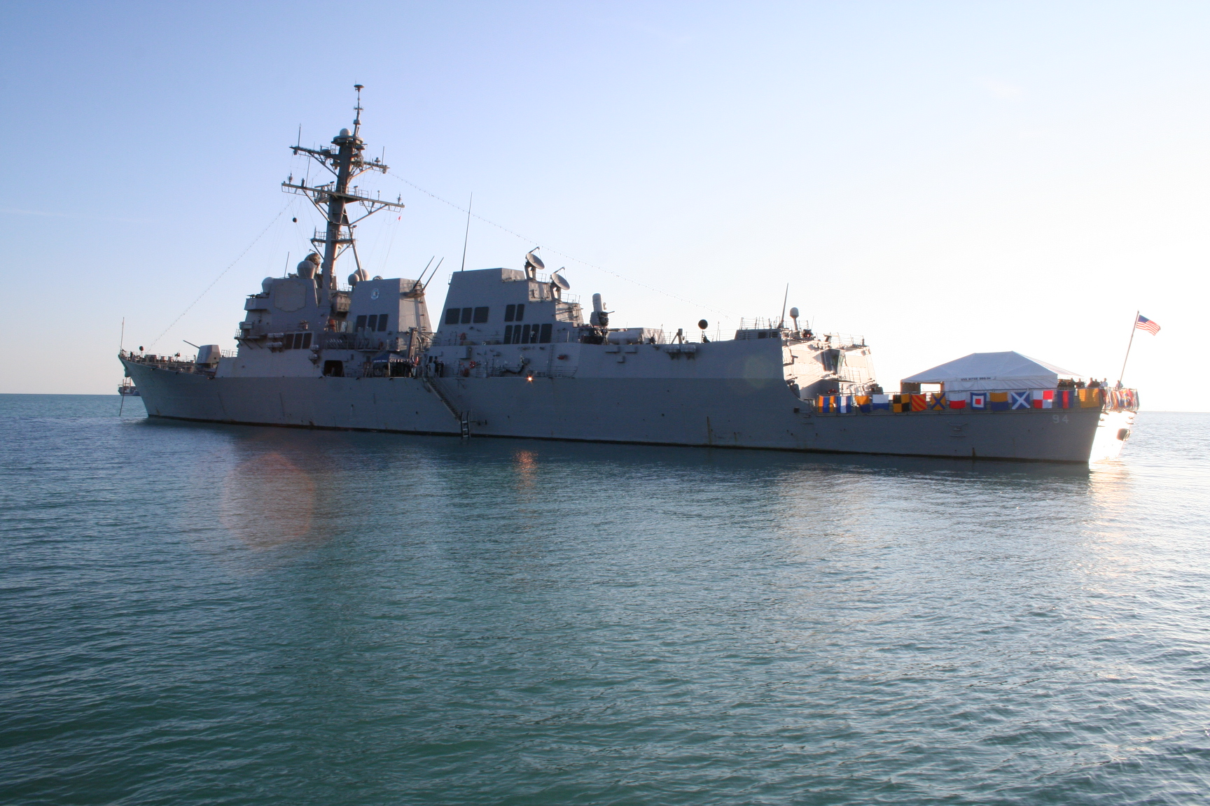 Picture taken at an official visit in Albania.